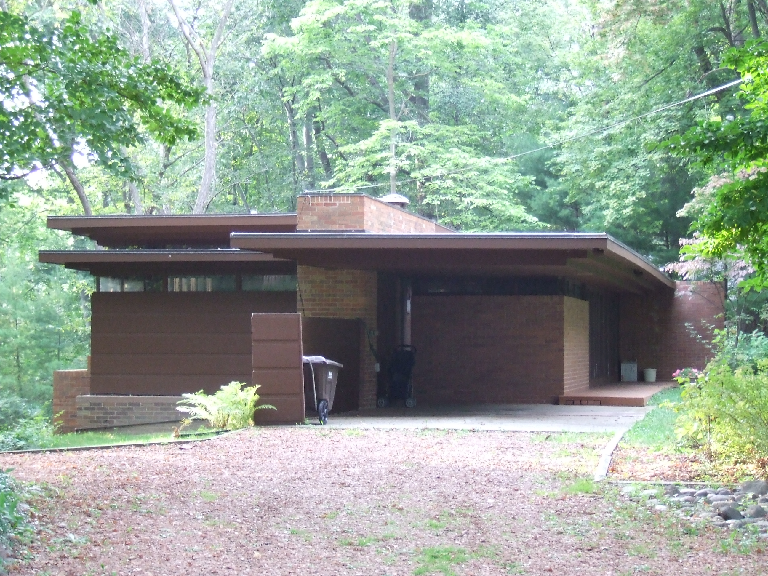 Goetsch-Winckler House — near Okemos, Ingham County, south-central Michigan. Designed by Frank Lloyd Wright (1940). On the National Register of Historic Places.